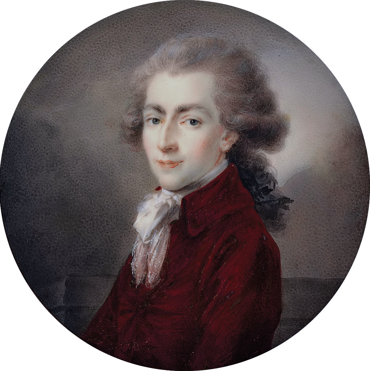 Count, later Prince, Philipp von der Leyen und zu Hohengeroldseck, (1766-1829) on ivory 81 mm inscribed verso: Fürst Leyn